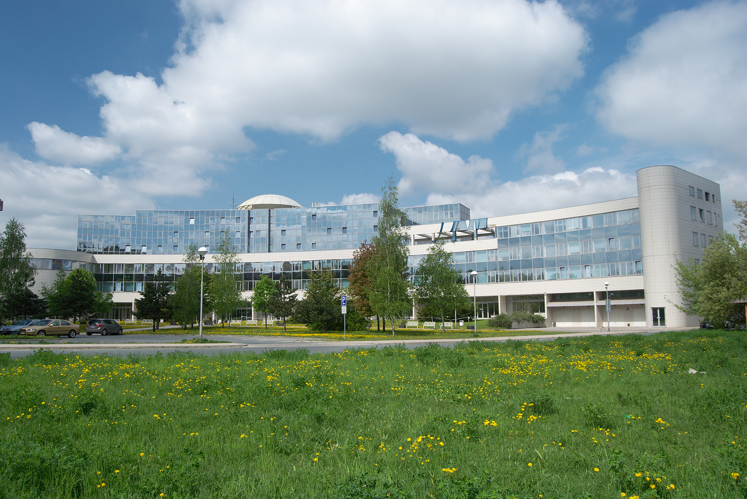 Brno-Černá Pole - New building of The Faculty of Regional Development and International StudiesEsperanto: Nova konstruaĵo de la Fakultato de regiona evoluo kaj de internaciaj studoj